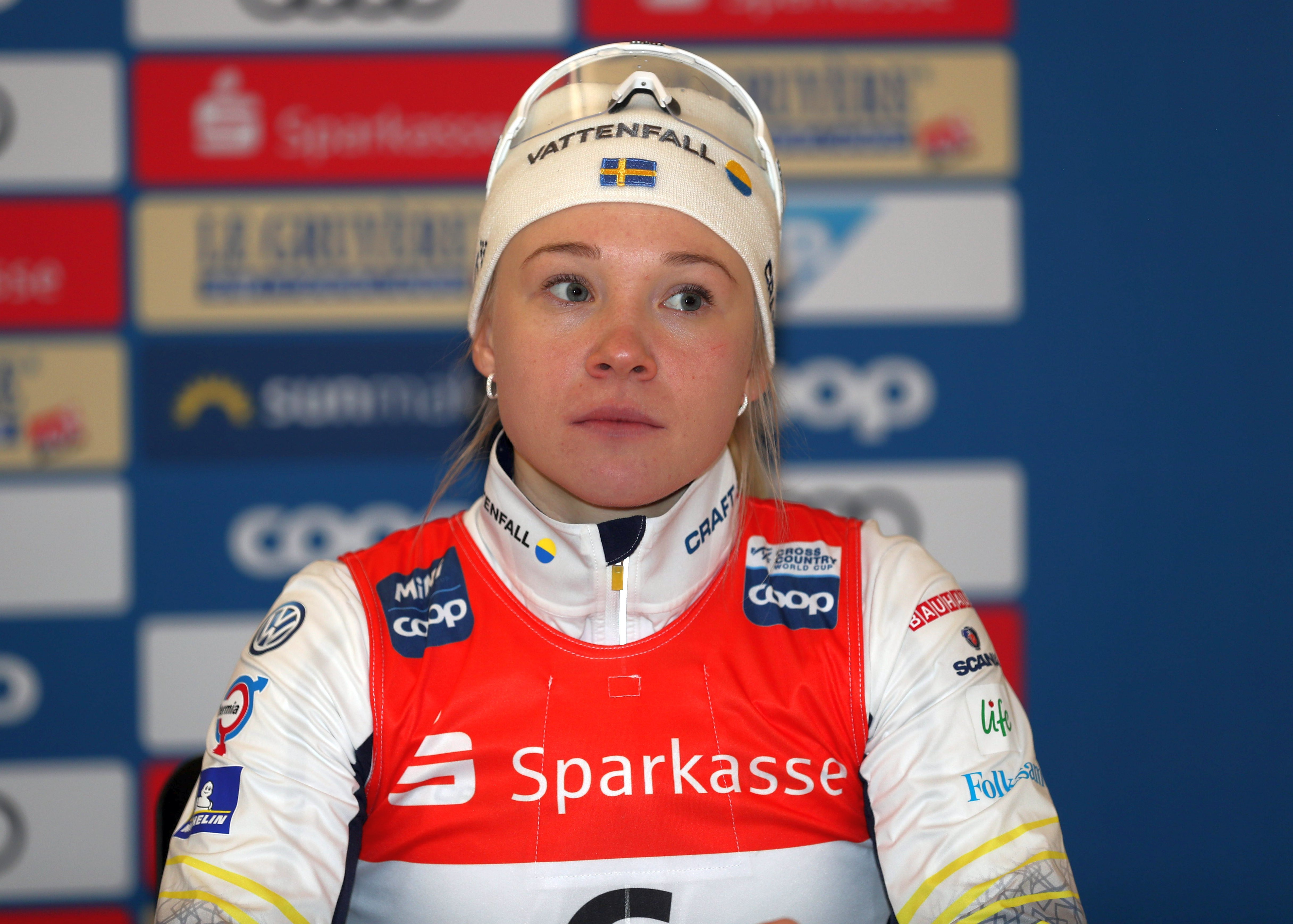 Press Conference at the FIS Cross-Country World Cup Dresden 2019